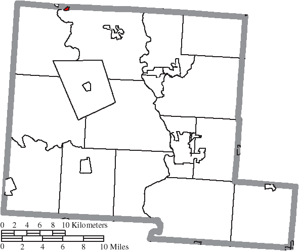 Map of the municipal and township boundaries of Pickaway County, Ohio, United States, as of the 2000 census, with the location of the village of Orient highlighted. Township borders are shown only in unincorporated areas in order to differentiate incorporated and unincorporated areas more clearly.